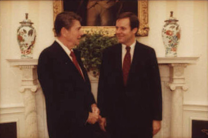 President Ronald Reagan and Tom Kean (3A-12A) Photo Op. With Republican Gubernatorial candidate Tom Kean President Ronald Reagan, Liles Williams, Mrs. Williams, and Lee Atwater (Not in all photos) (13A-27A) Photo Op. With Republican Congressional Candidate Liles Williams